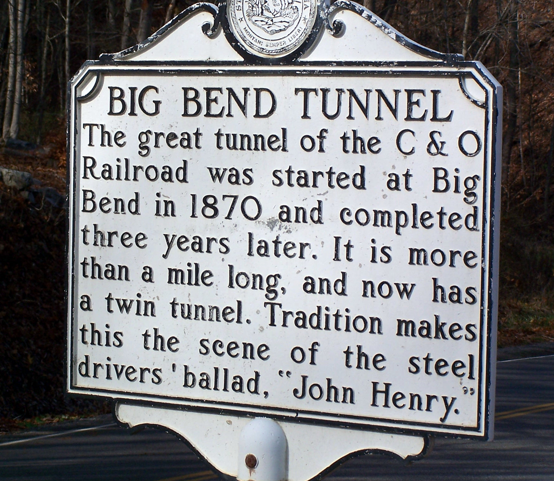 This sign explains about the tunnel that is far below the John Henry overlook. Travel along WV Routes 63, 12 and 3 between Ronceverte and Hinton is both historic and beautiful.